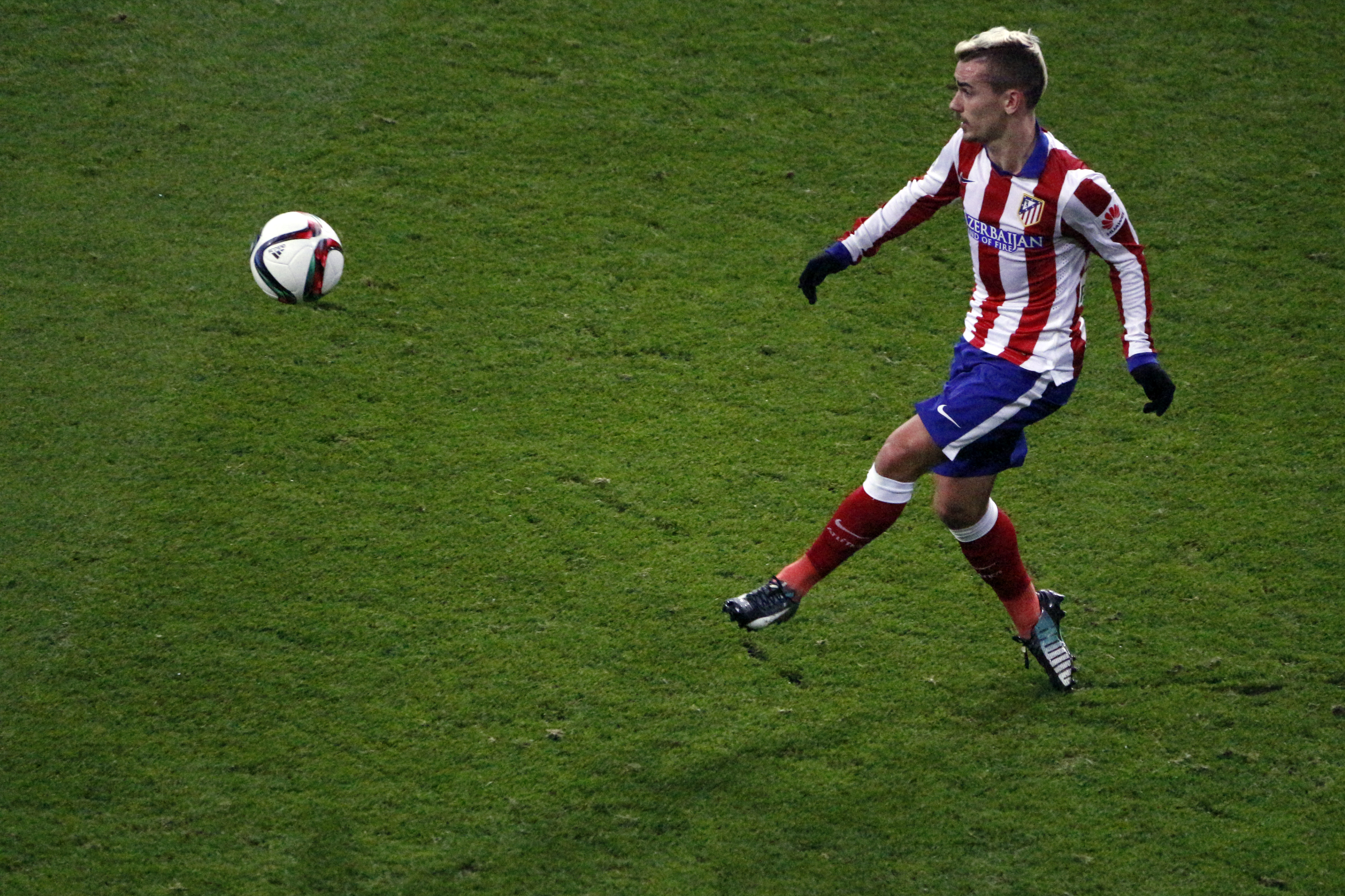 Antoine Griezmann playing for Atlético Madrid.